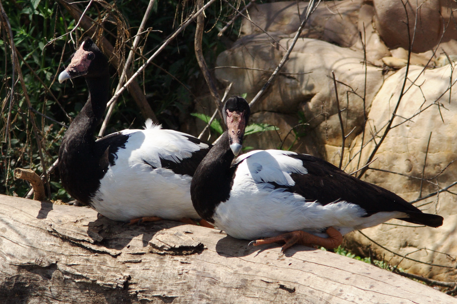 Magpie Geese, Anseranas semipalmata; wild birds in Australia